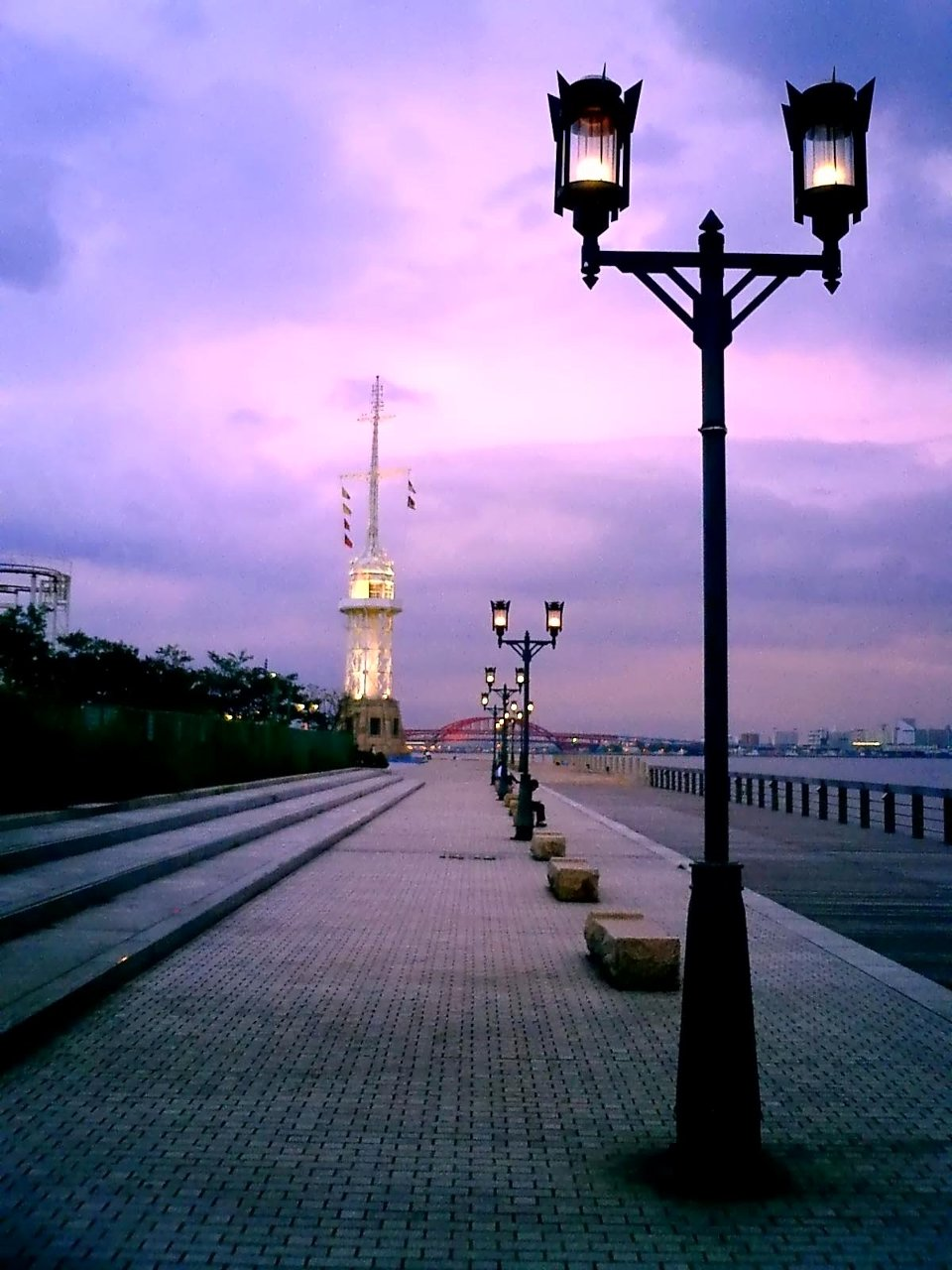 Former signal tower at a quay in the port of Kobe, Japan.